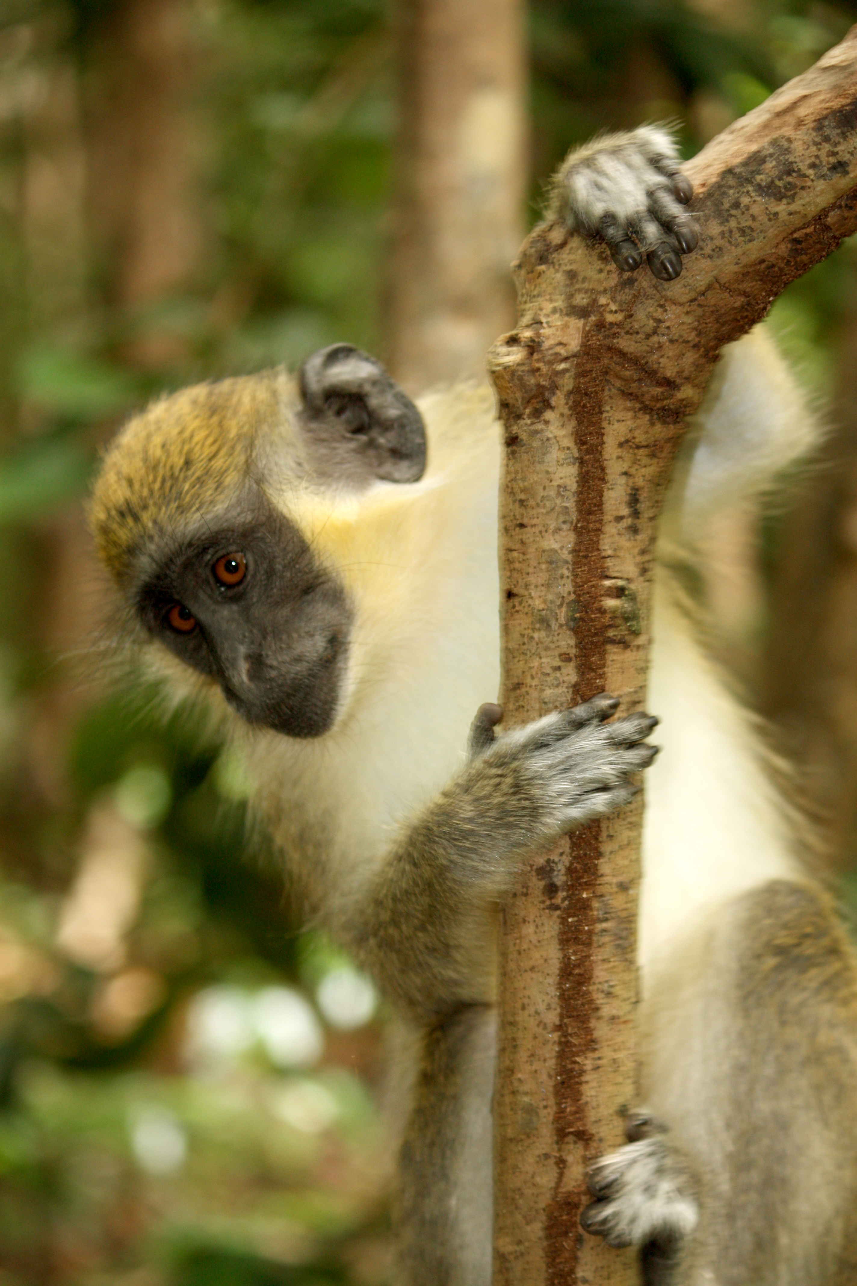 Green Monkey (Chlorocebus sabaeus). Grenade Hall Forest, Barbados.